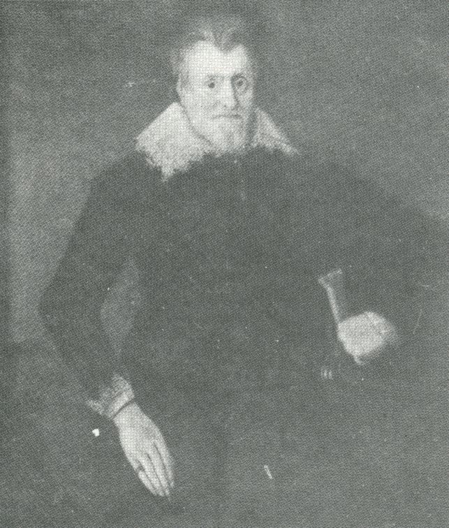 The fifth William Davenport of Bramall Hall, aged 65